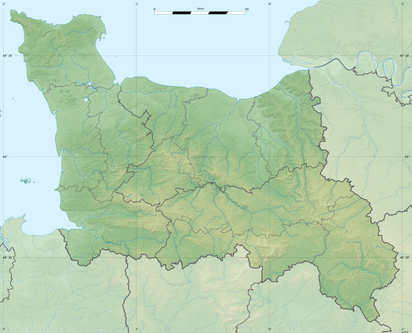 Blank physical map of the region of Lower Normandy, France, for geo-location purpose, with distinct boundaries for regions, departments and arrondissements.